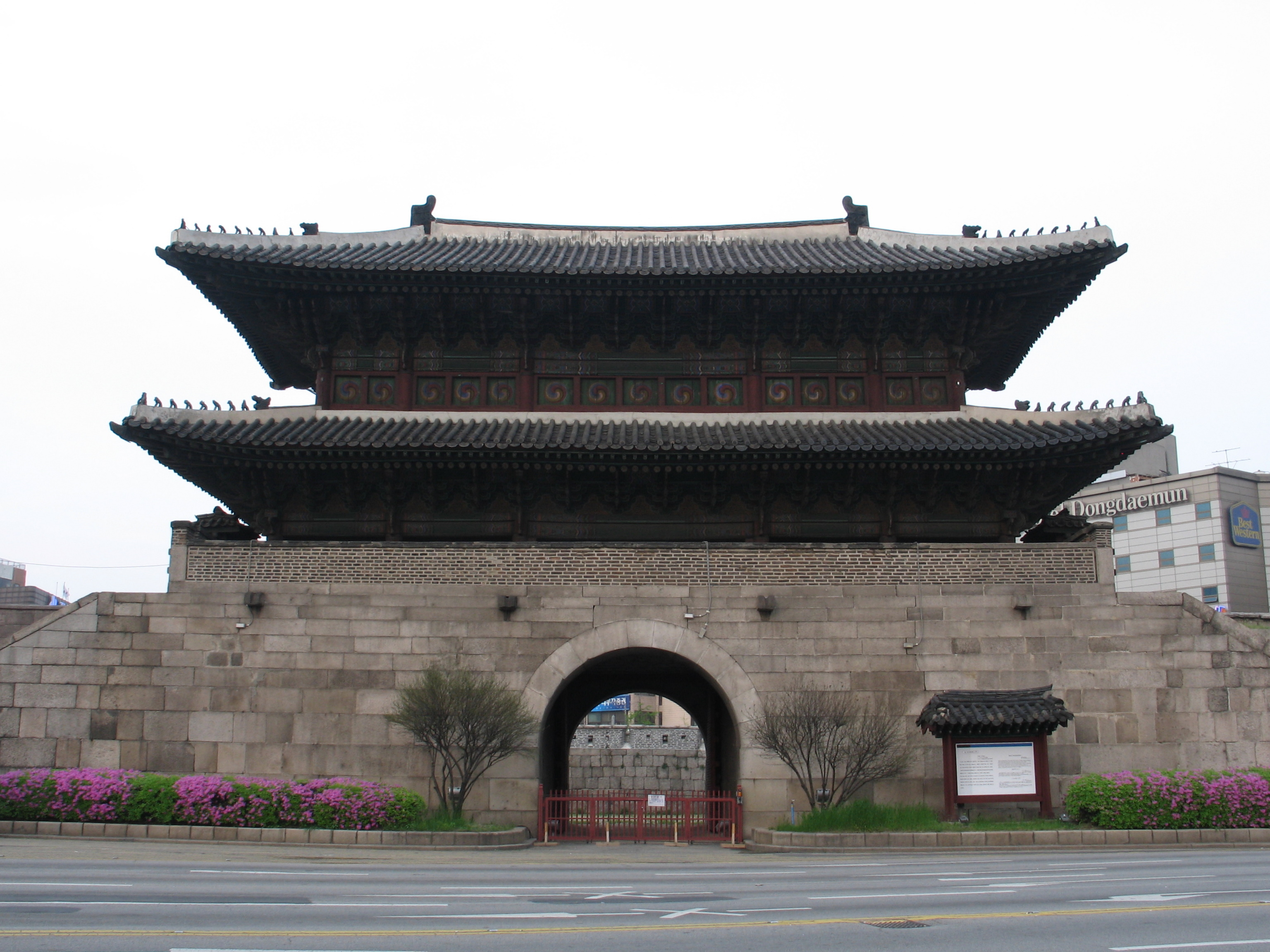 Dongdaemun (동대문) or Heunginjimun (흥인지문) located in Jongno-gu, central of Seoul, South Korea.